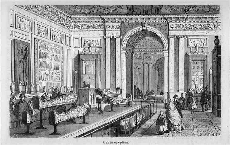 Gravure dated to 1863 of the first room of the Egyptian antiquities in the Louvre Museum. The room's organisation was designed by Champollion.